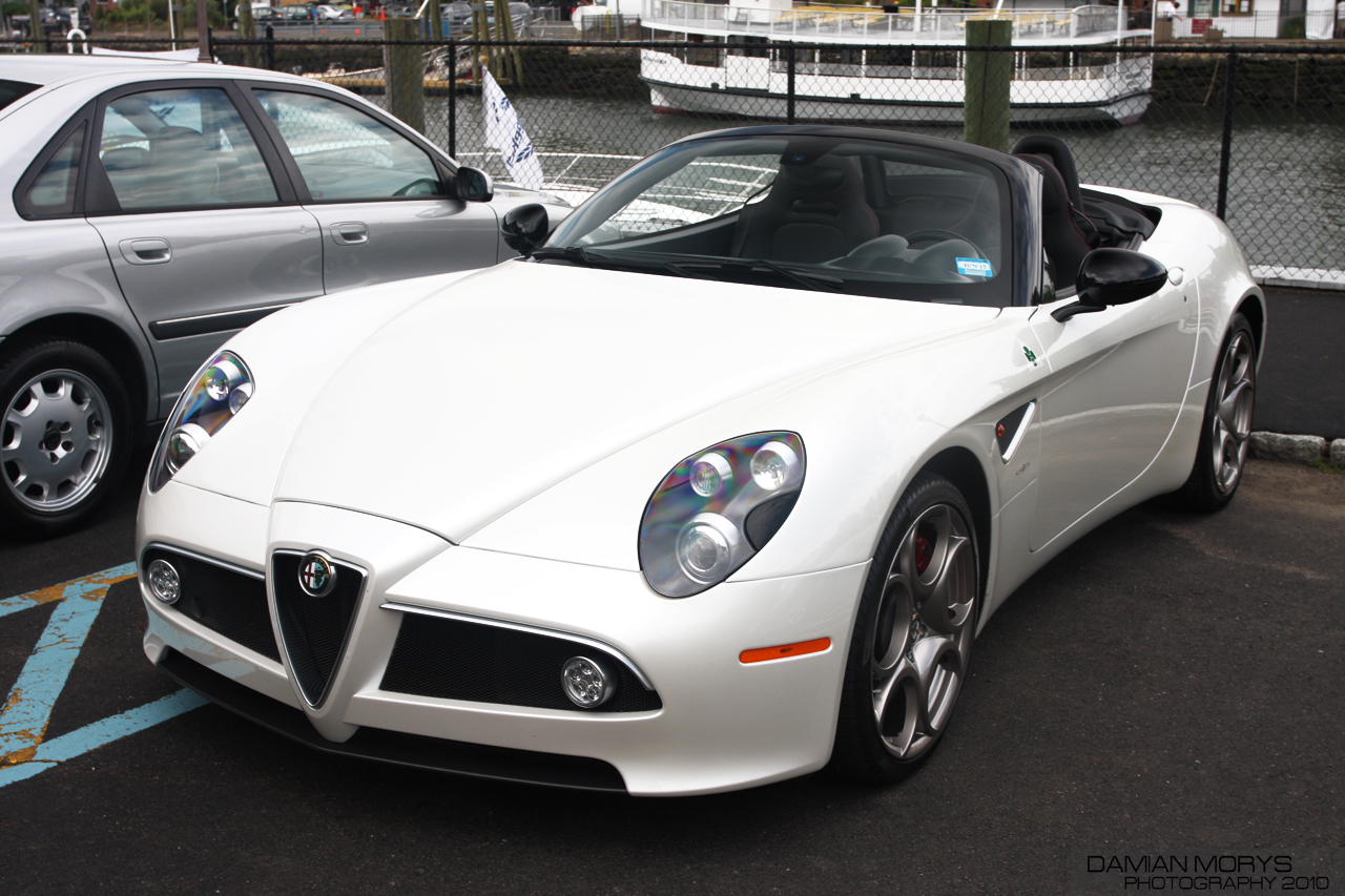 One of the most beautiful cars I have ever seen.